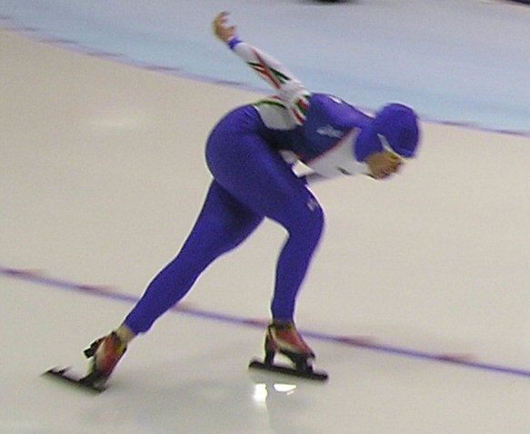 Chiara Simionato (ITA) at a World Cup in Thialf (Heerenveen, The Netherlands)